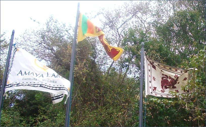 Flags of Sri Lanka (center) and North-central province (right), photo take by the uploader july 2006